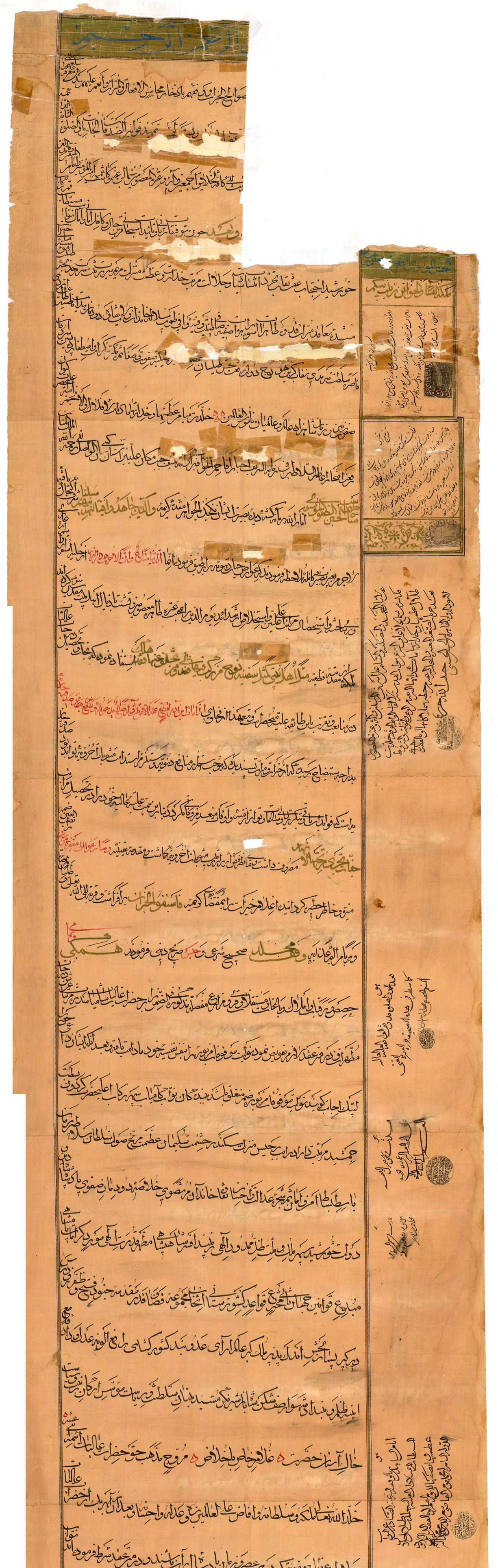 Will of Zeynab Begum, Tahmasp I's (r. 1524-1576) daughter